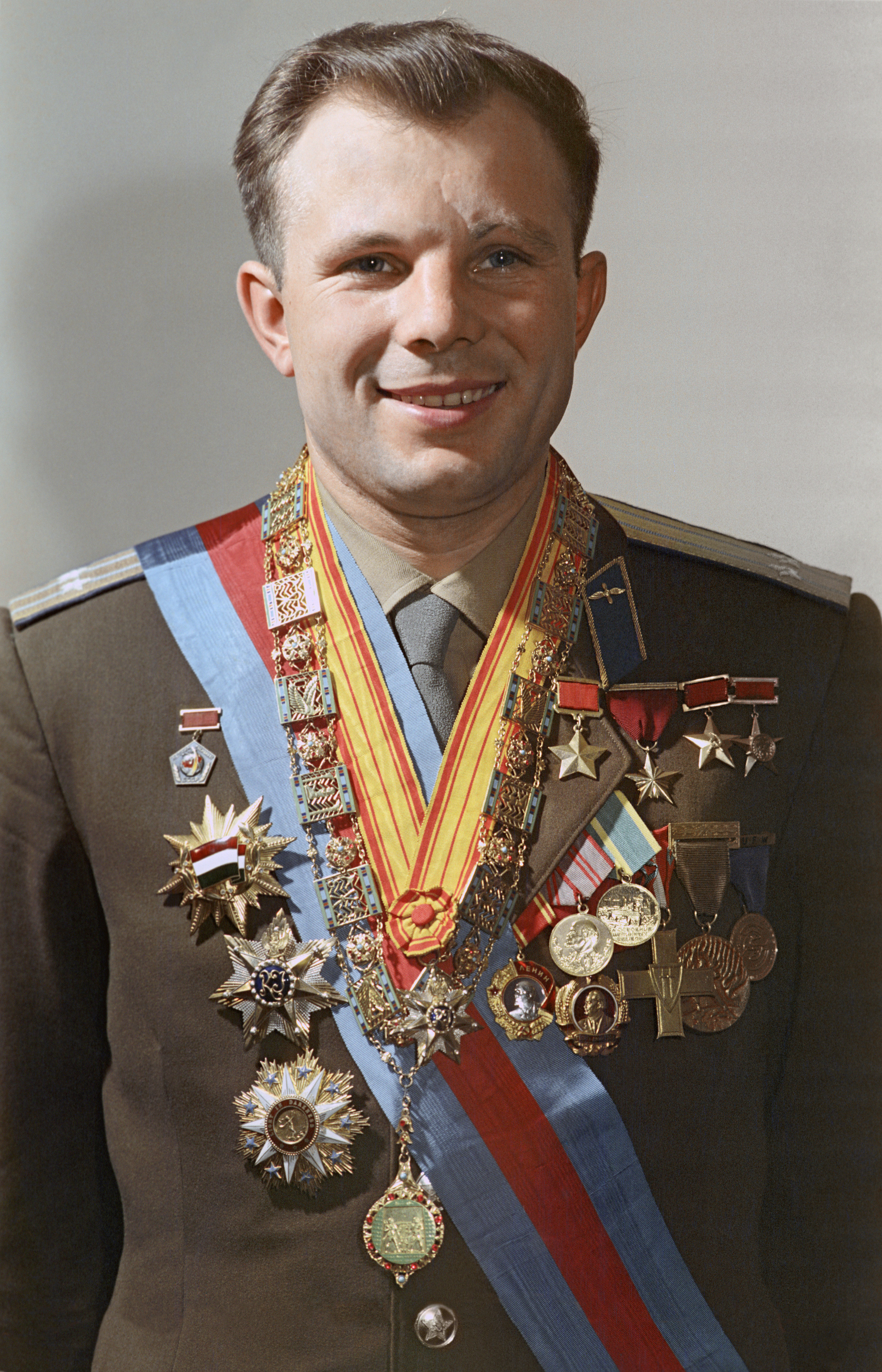 Ceremonial portrait of the Soviet cosmonaut Yuri Alekseevich Gagarin with awards.